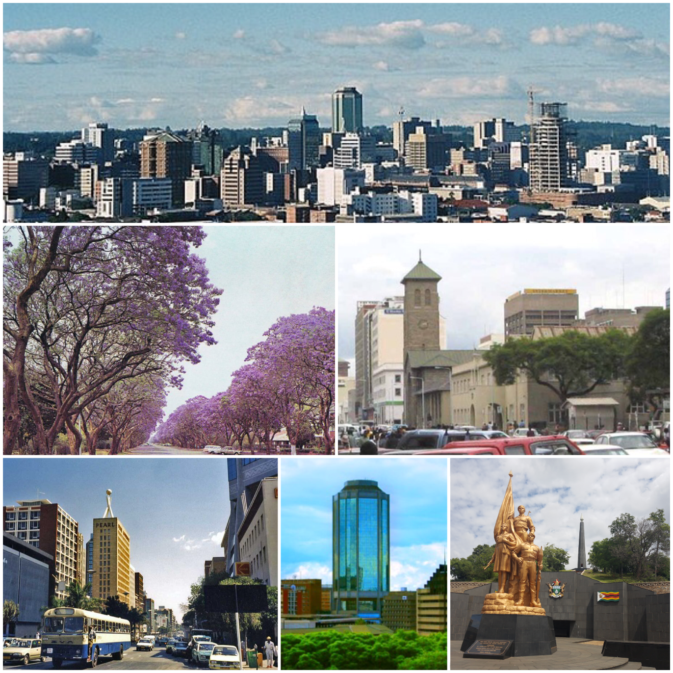 Harare, the capital of Zimbabwe